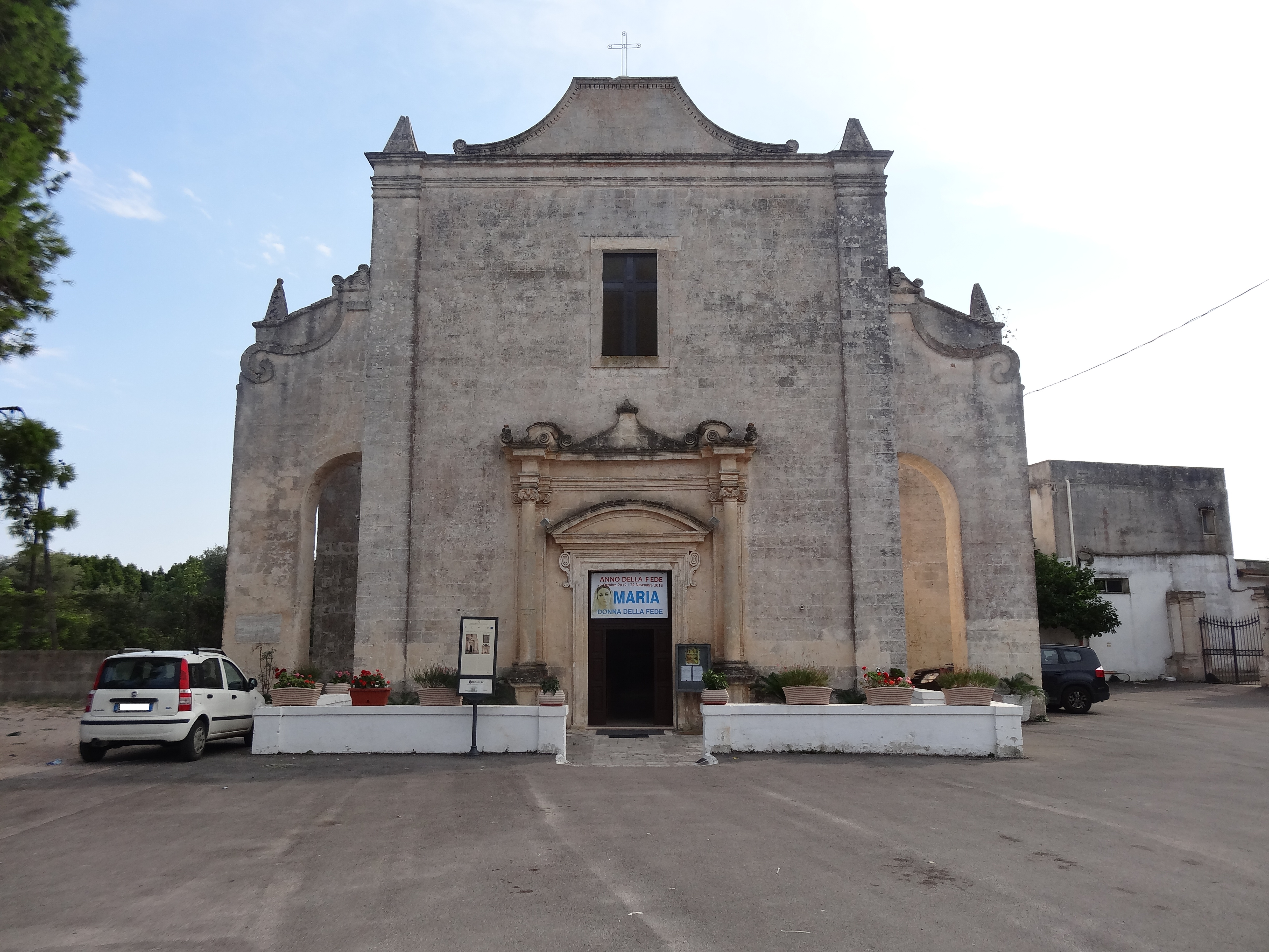 Santuario della Madonna di Pasano